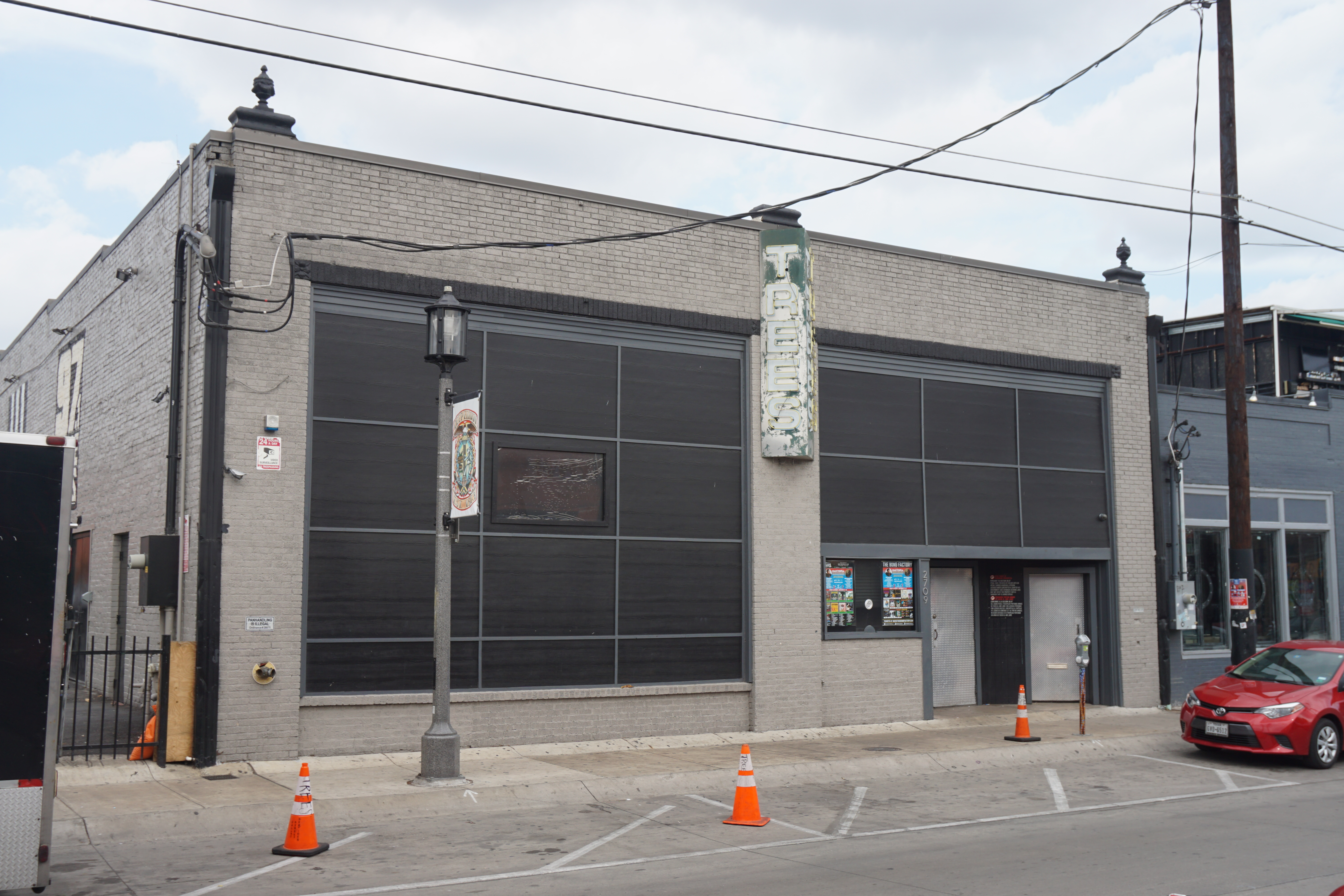 Trees in the Deep Ellum neighborhood in Dallas, Texas (United States).